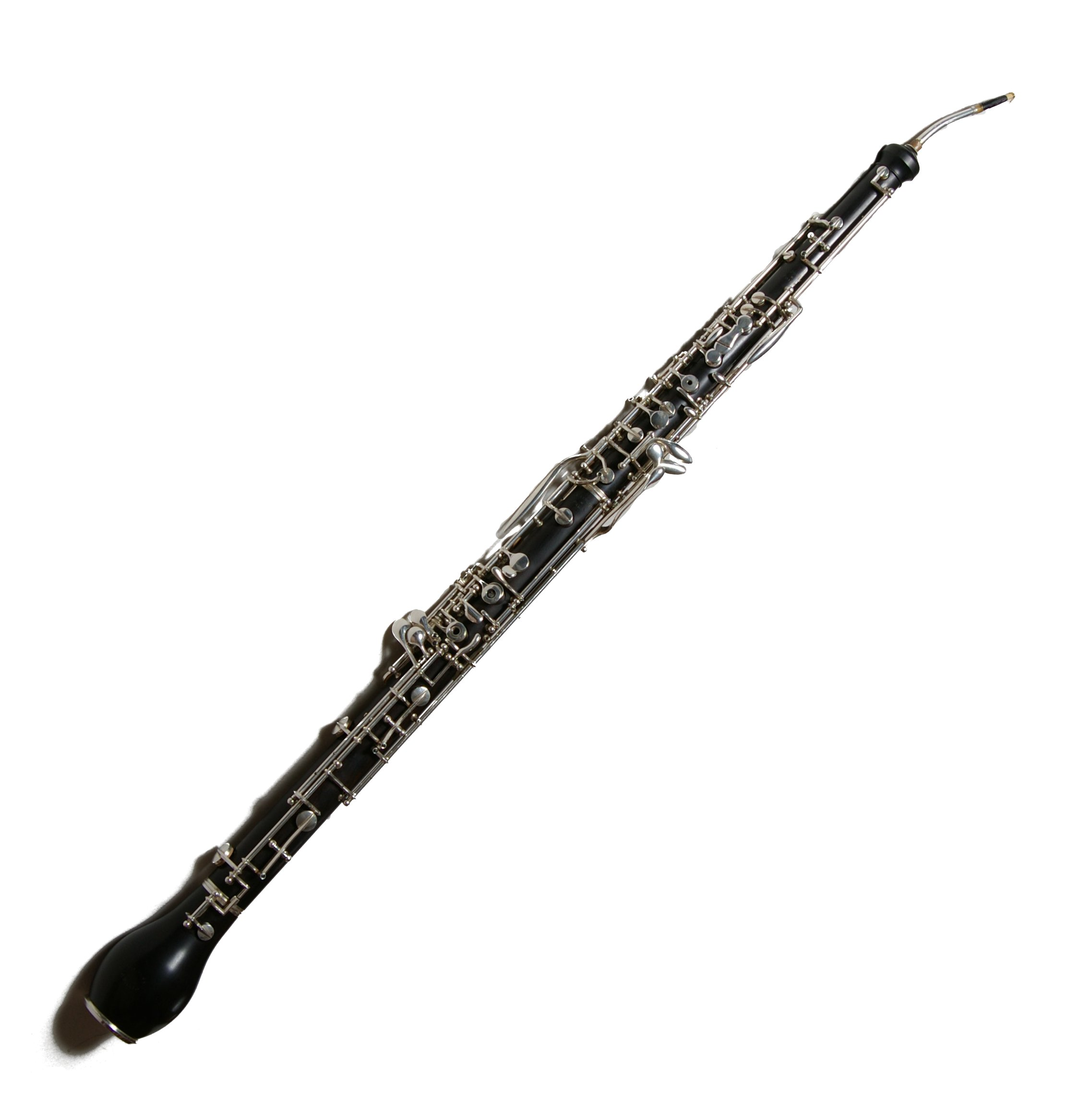 An English Horn, or Cor anglais.